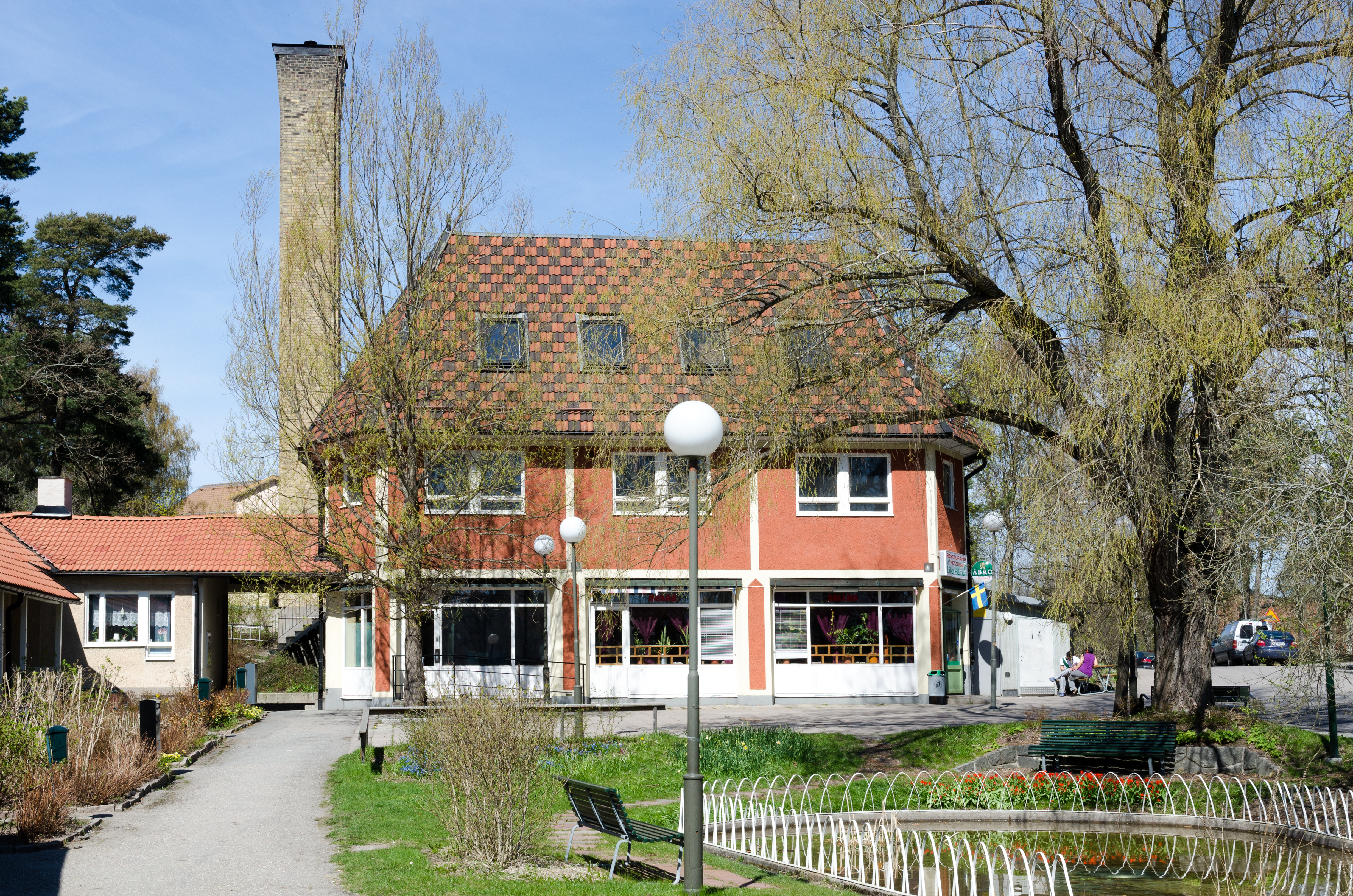 Skönstaholm.